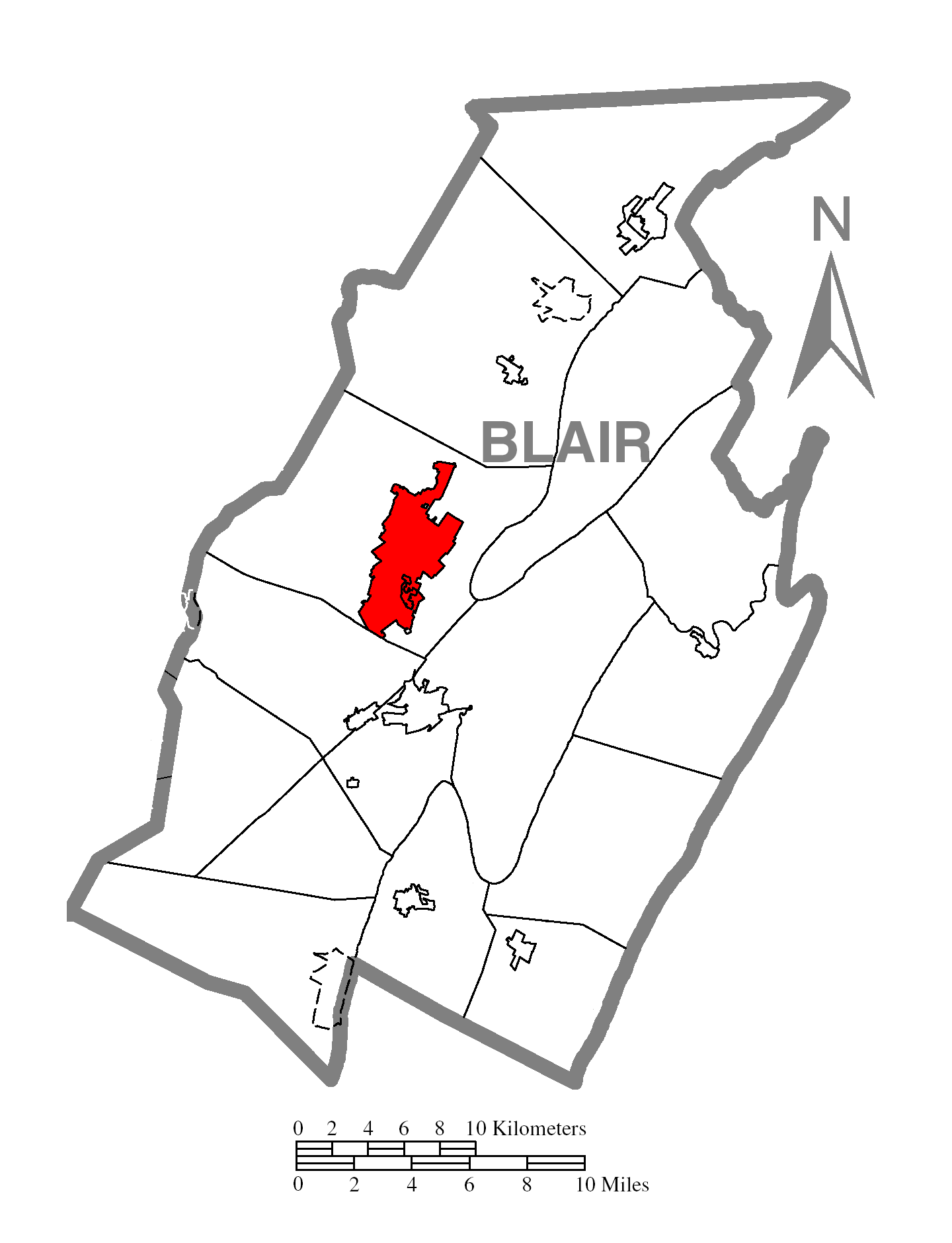 A map of Blair County showing Altoona, Pennsylvania (alternate) highlighted on the map.